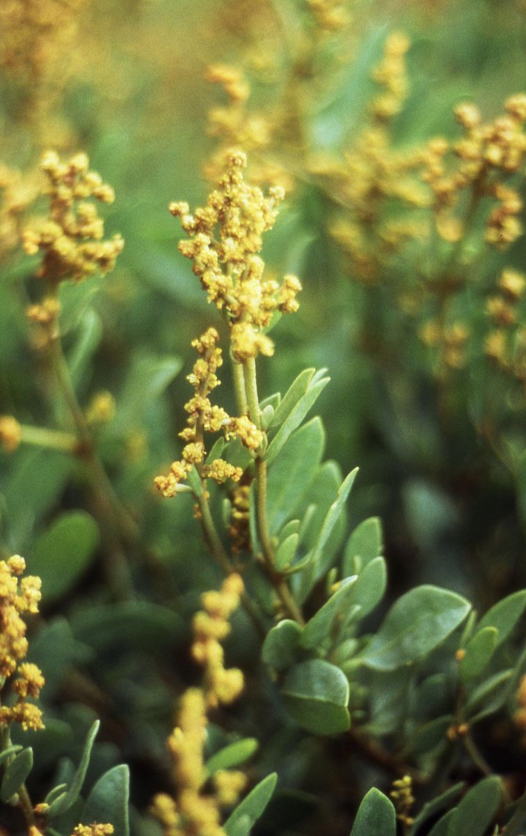 Halimione portulacoides, Heligoland (Germany)